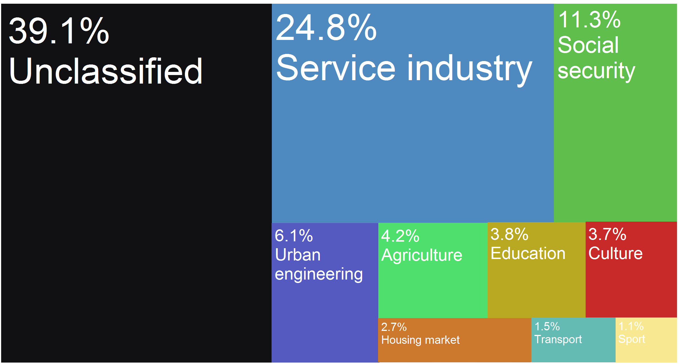 Diagram illustrating the city's budget sources.